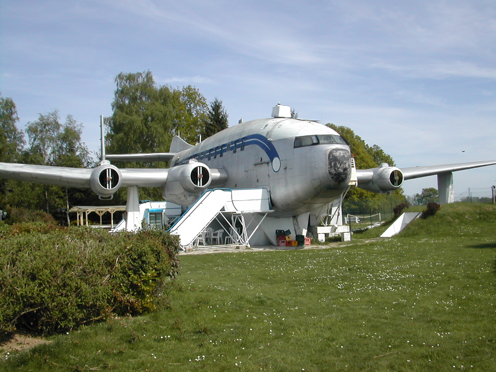 Breguet 763 F-BASS in Fontenay-Trésigny (Seine-et-Marne, Île-de-France, France).